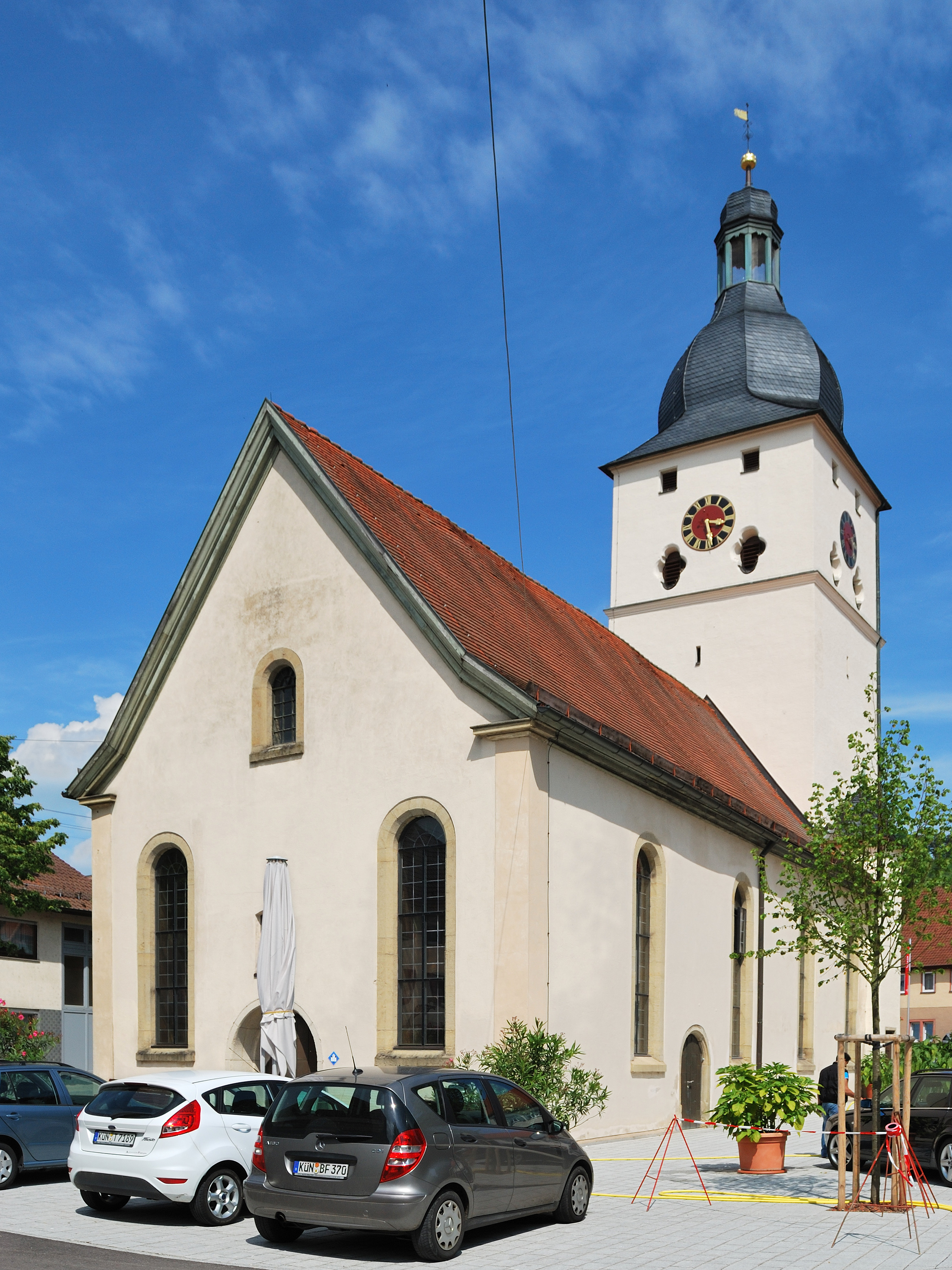 The protestant Trinity Church in Dörzbach in Southern Germany.